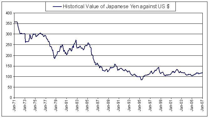 original description: This is a self created image by me from the data of Board of Governors of the Federal Reserve System and I am releasing it to public domain.